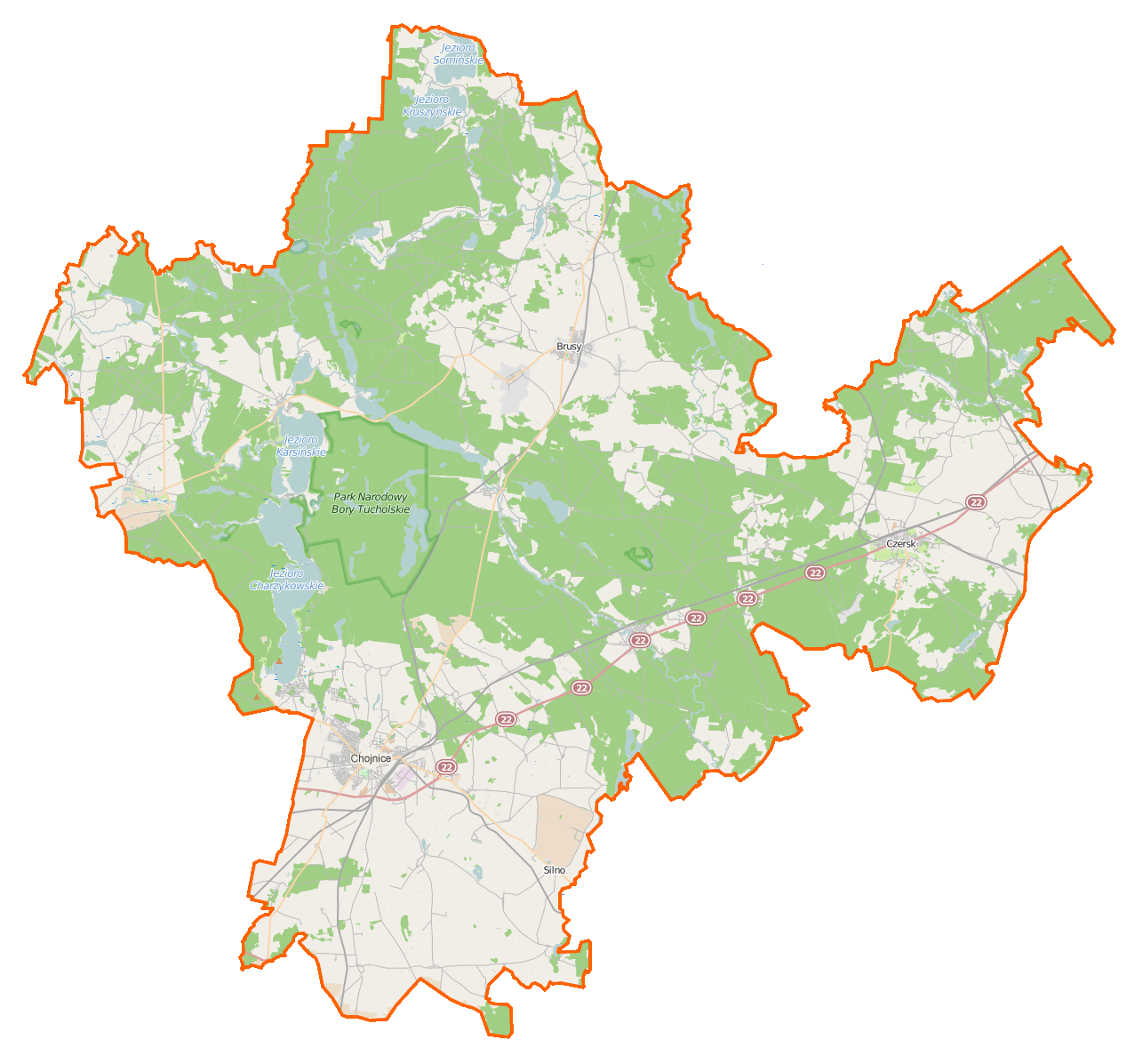 Map of Powiat chojnicki, Poland This map of Powiat chojnicki was created from OpenStreetMap project data, collected by the community. This map may be incomplete, and may contain errors. Don't rely solely on it for navigation.